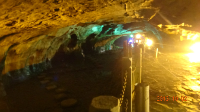 Benxi Water Caves